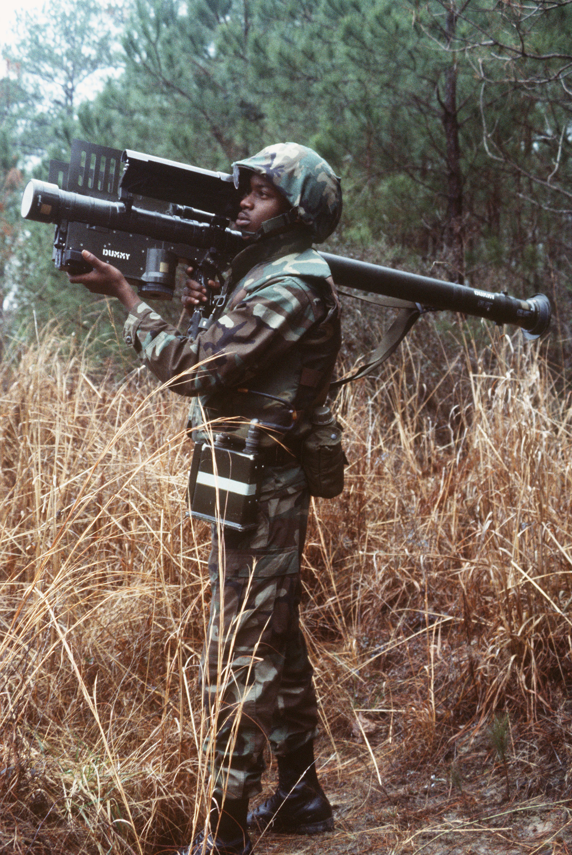 Sergeant David R. Lee demonstrates the Redeye portable anti-aircraft missile system. Location: MCAS, CHERRY POINT, NORTH CAROLINA (NC) UNITED STATES OF AMERICA (USA)